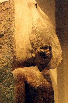 Seneferu. Egyptian Museum, Cairo. Main floor - Room 32. Limestone.